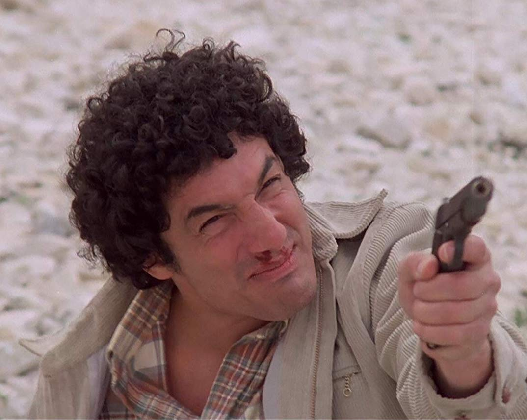 David Hess in the trailer for Hitch-Hike (1977)